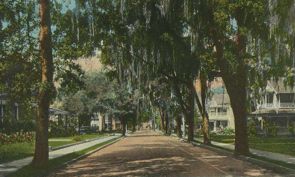 Fort King Street, Looking West, Ocala, FL; from a c. 1920 postcard.